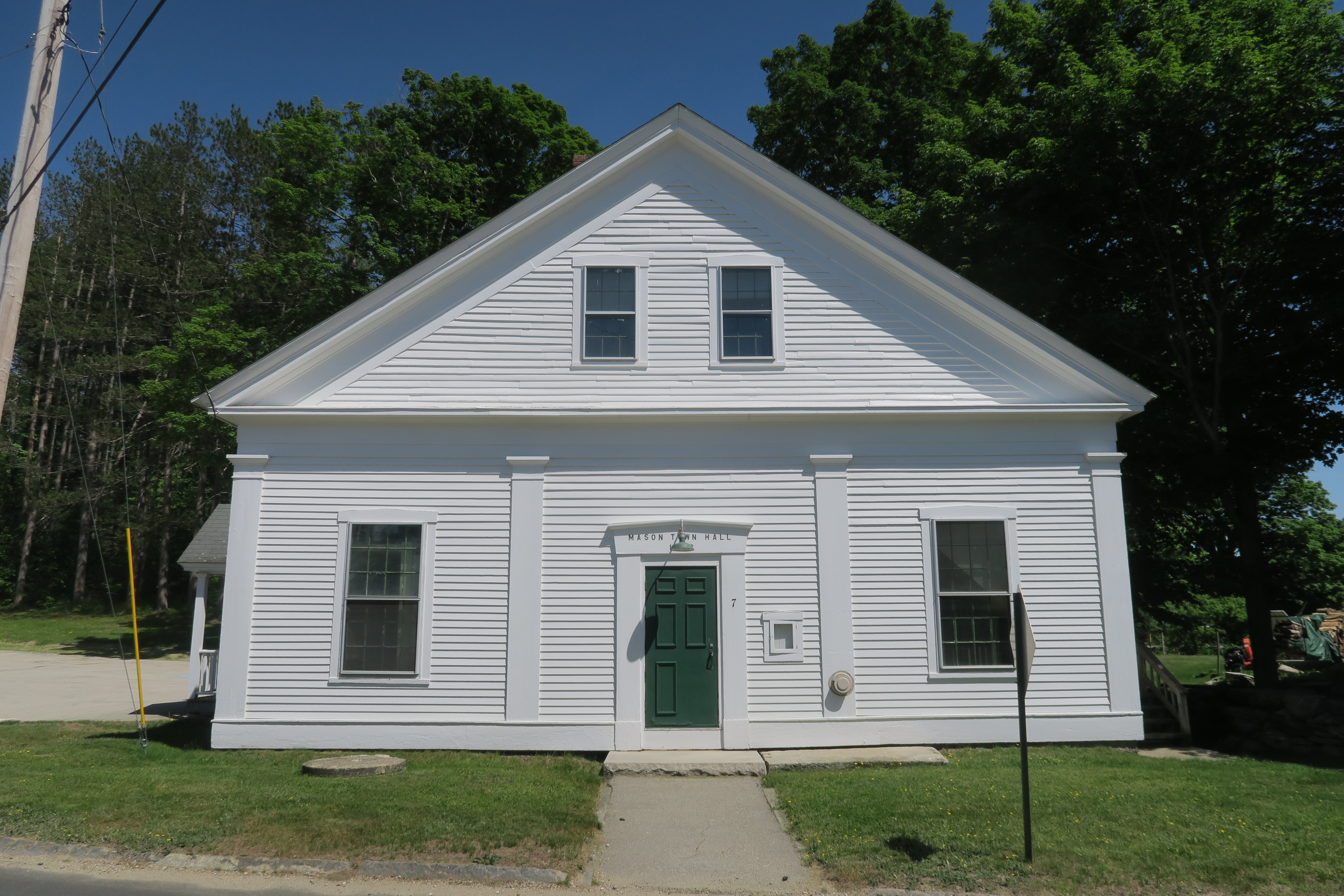 Mason Town Hall, Mason New Hampshire